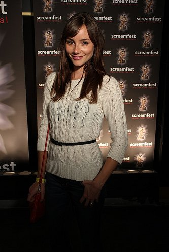 Jocelin Donahue at Screamfest, Los Angeles, CA